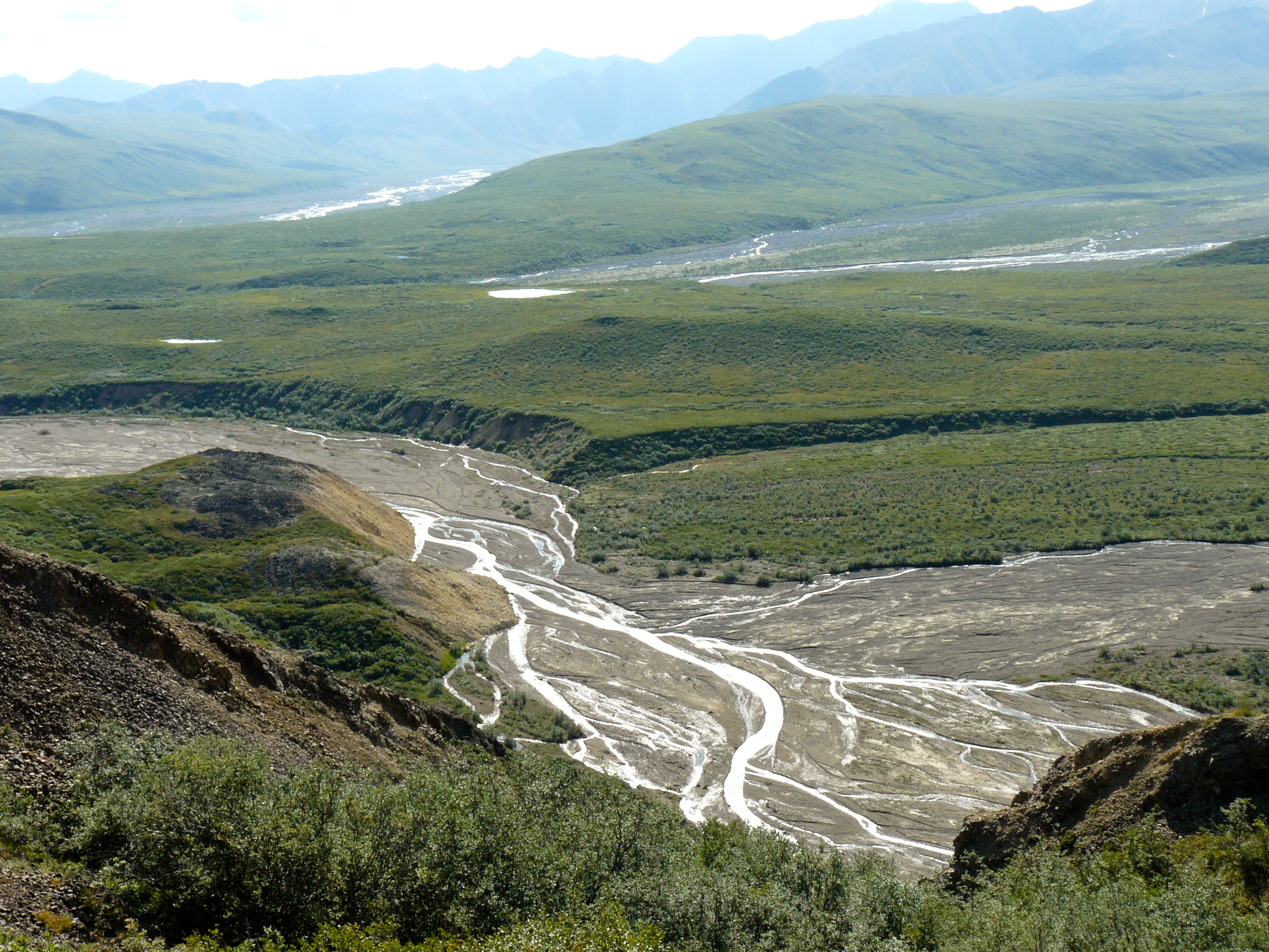 Toklat River, East Fork, Polychrome overlook, Denali National Park, Alaska. – "The river here was a wide bed of gravel with several channels where the water flows. Sometimes the water switches between channels but I'm surprised that there are no grasses growing in the (temporarily) dry parts. I guess there are no quick growing plants of that type in this climate."